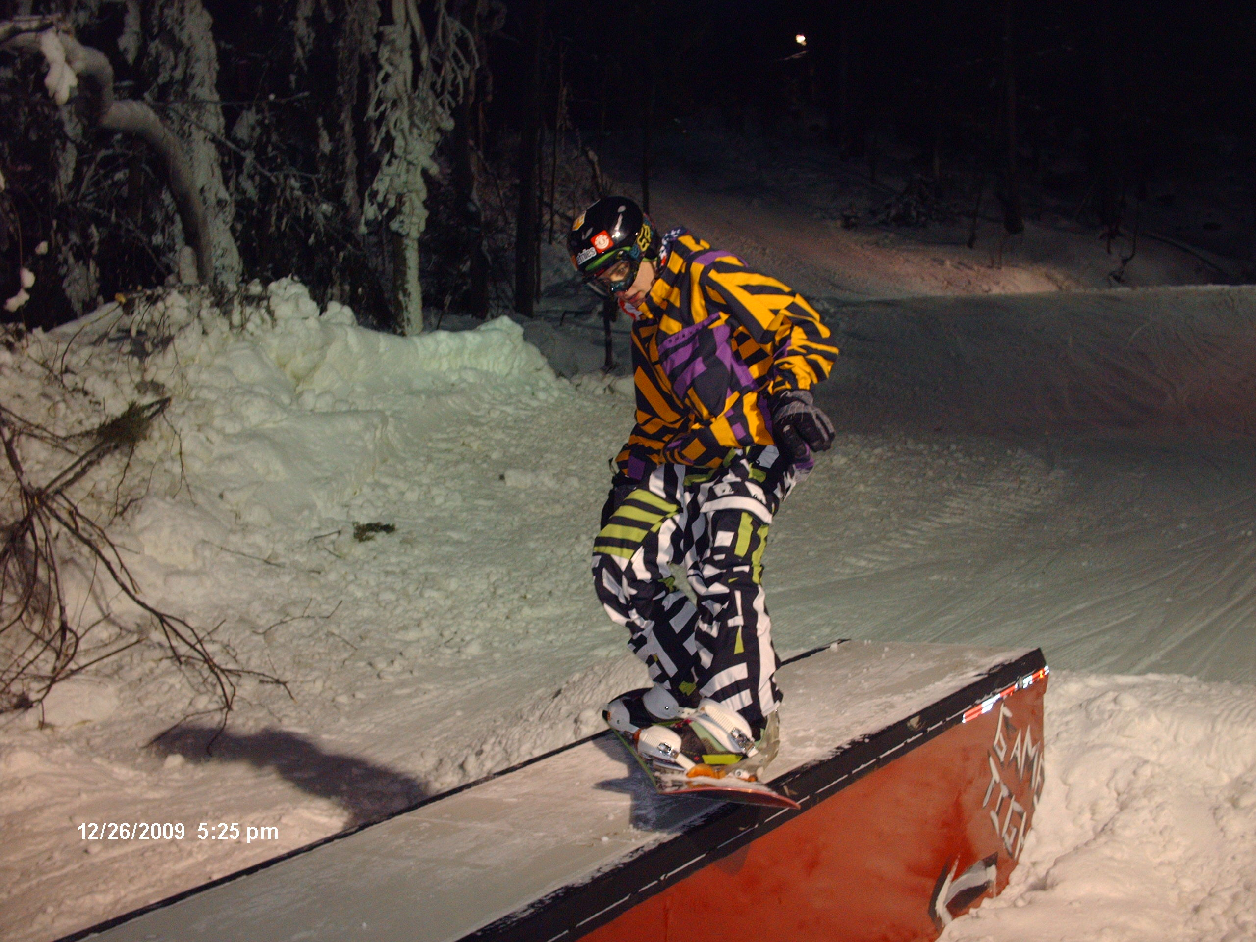 JIB Sesions